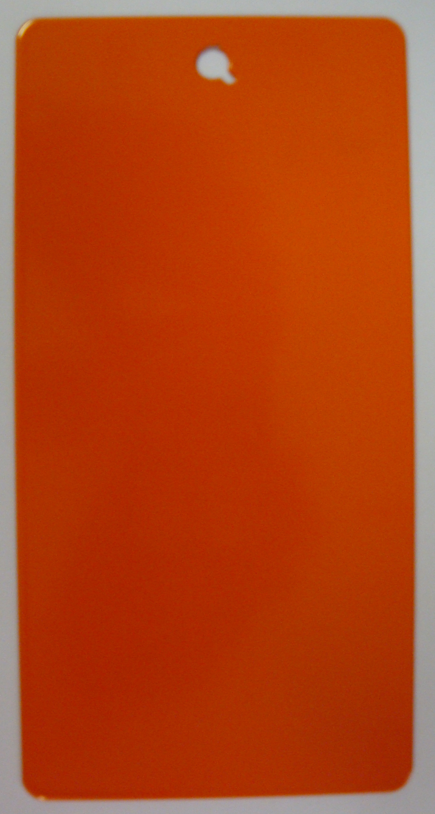 Powder coated panel